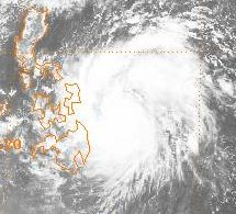 Typhoon Agnes of 1984